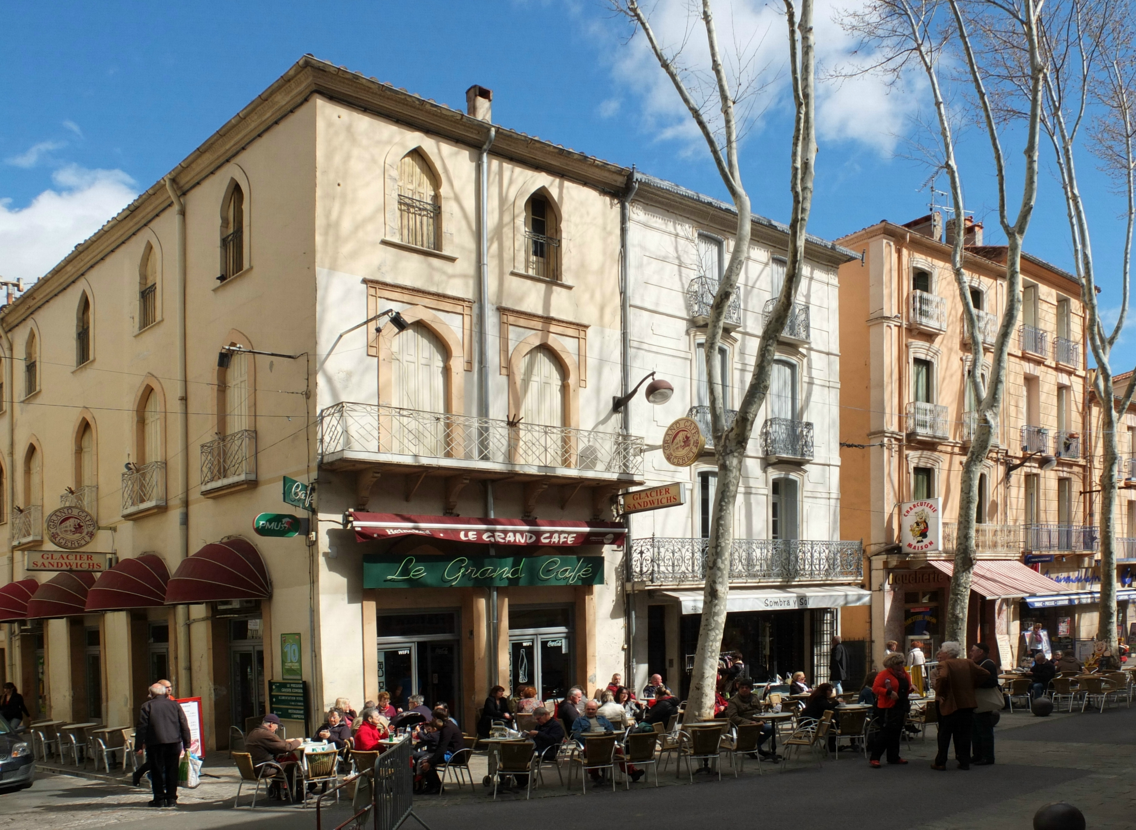 The Grand Café in Céret, France, view from S